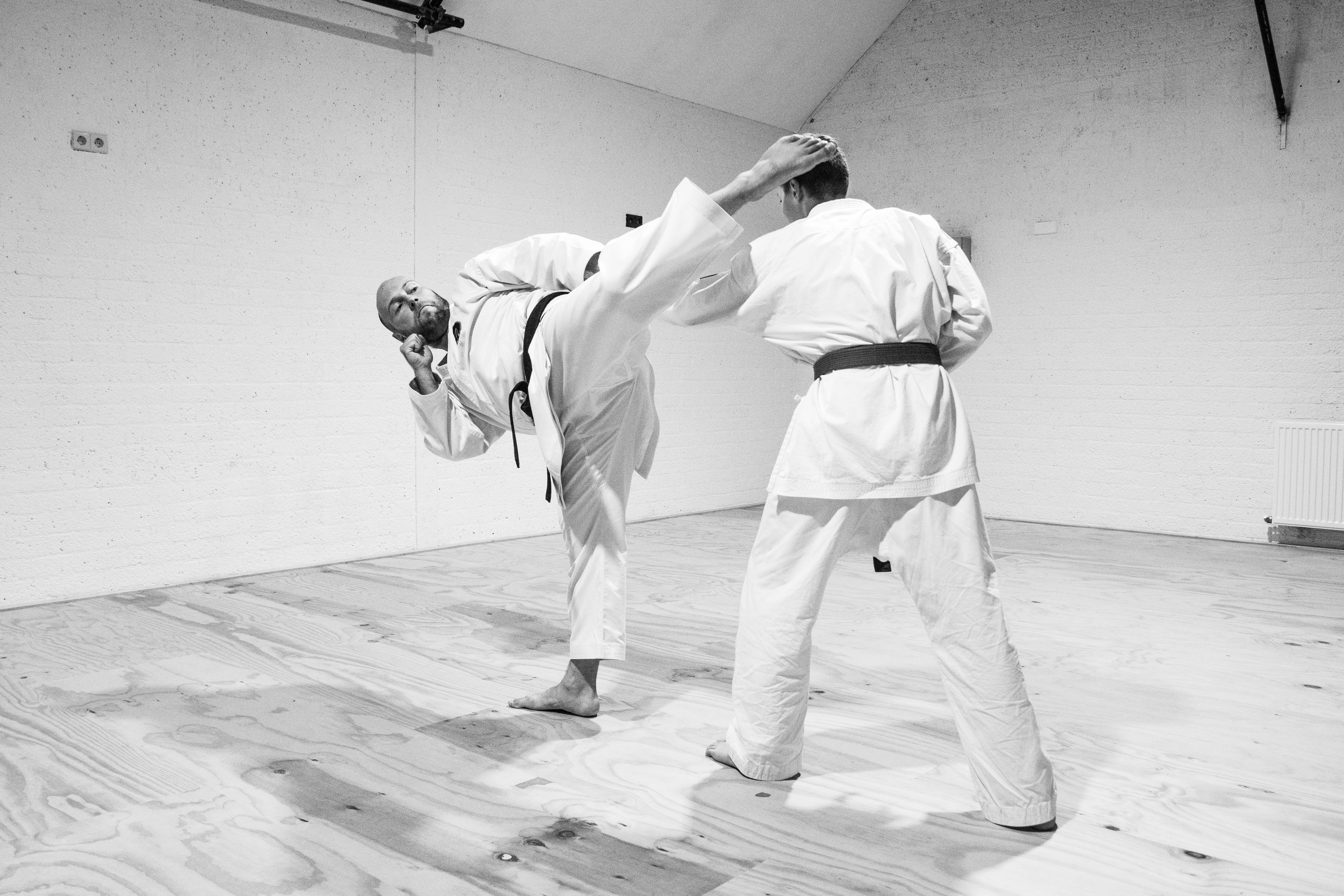 Karate bij Trainingscentrum Michi